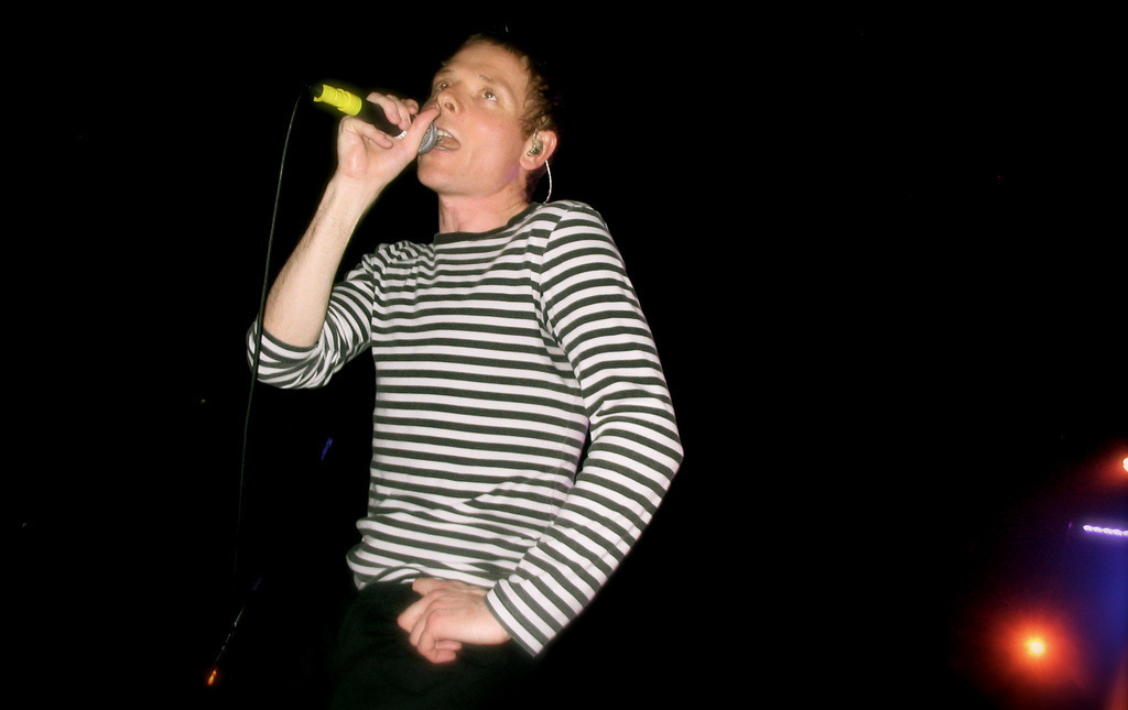 Stuart Murdoch performing live.